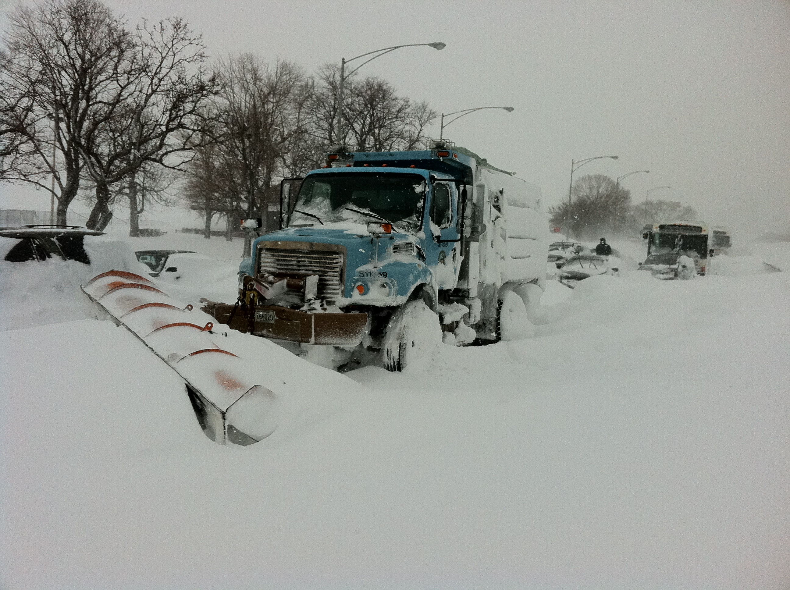 A salt truck stuck on Lake Shore Drive in Chicago during the snowstorm of 2 February 2011